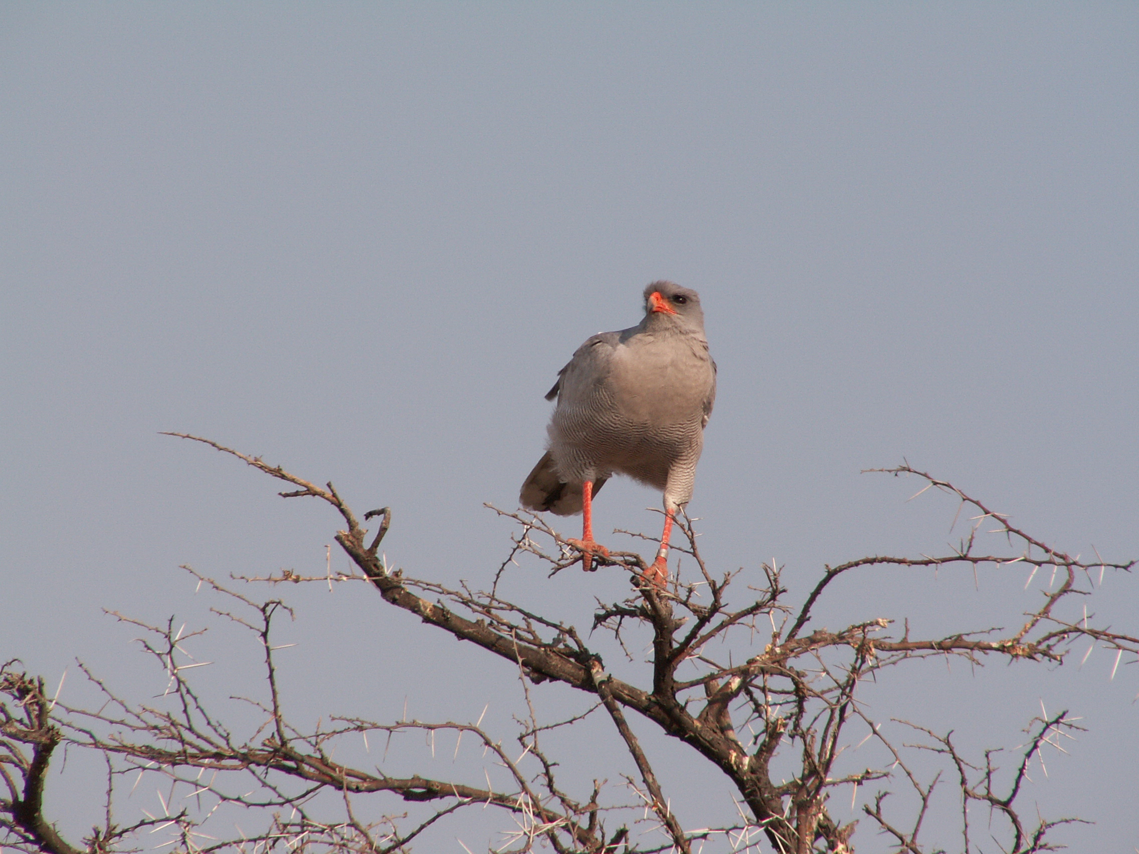 Pale Chanting Goshawk Melierax canorus, Etosha N.P., Namibia